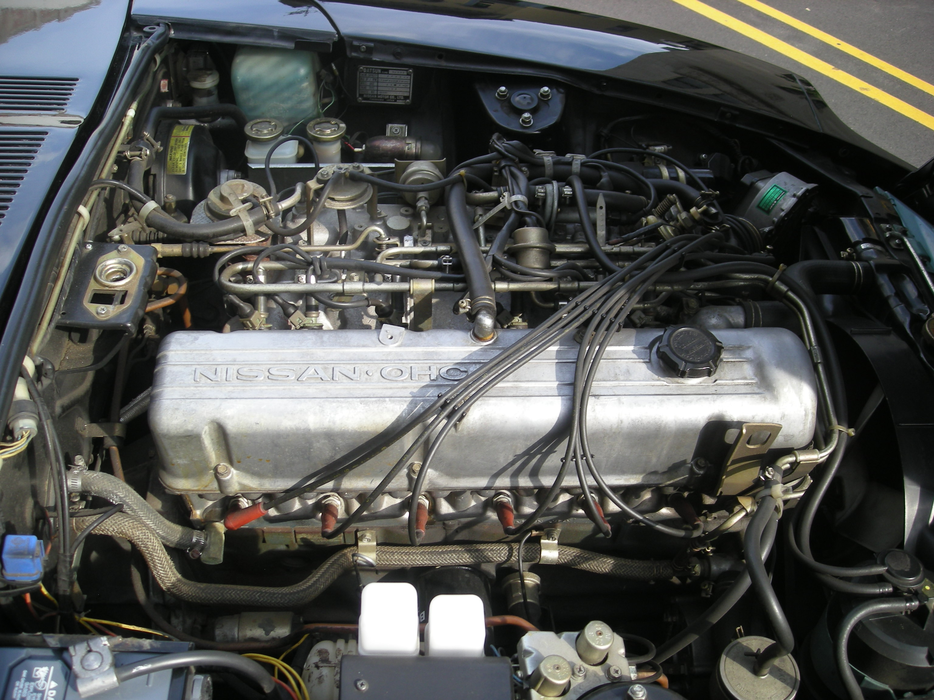 A 1978 Datsun 280Z "Black Pearl" engine at the 2014 Rolling Sculpture Car Show in Ann Arbor, Michigan (United States).